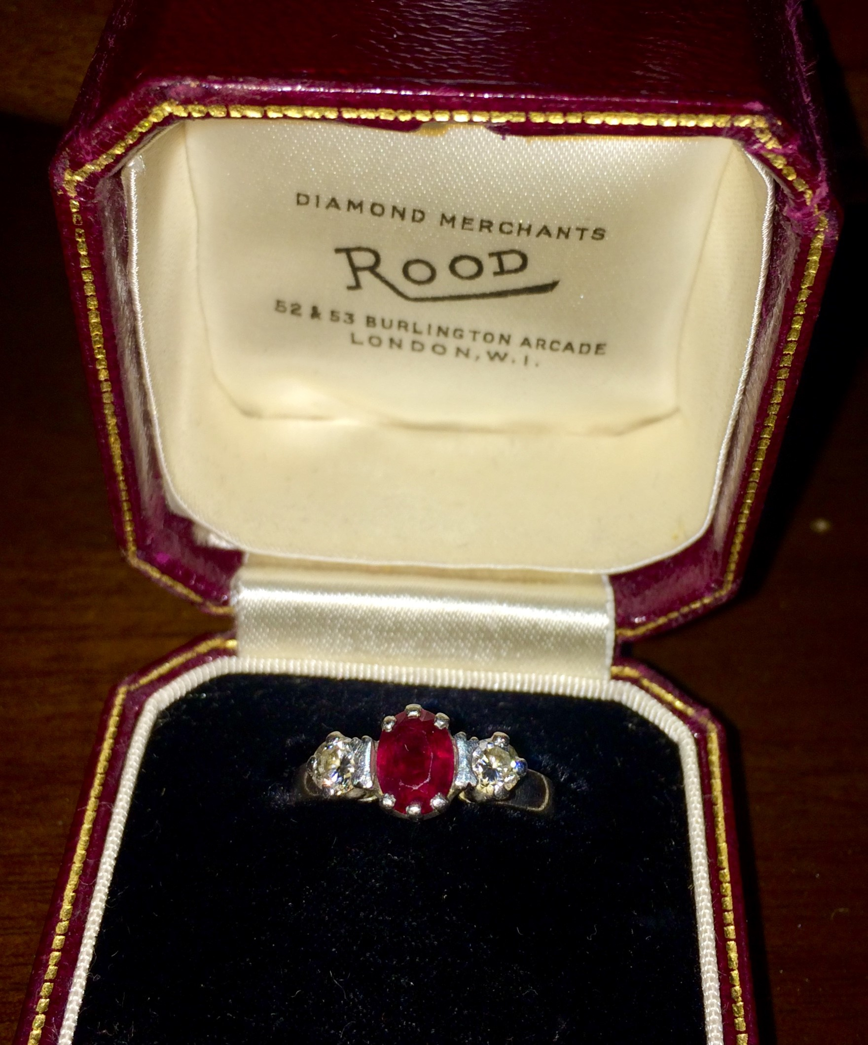 The ring "For Victoria" from 1930 sold at auction in US in 2014 for $74,000